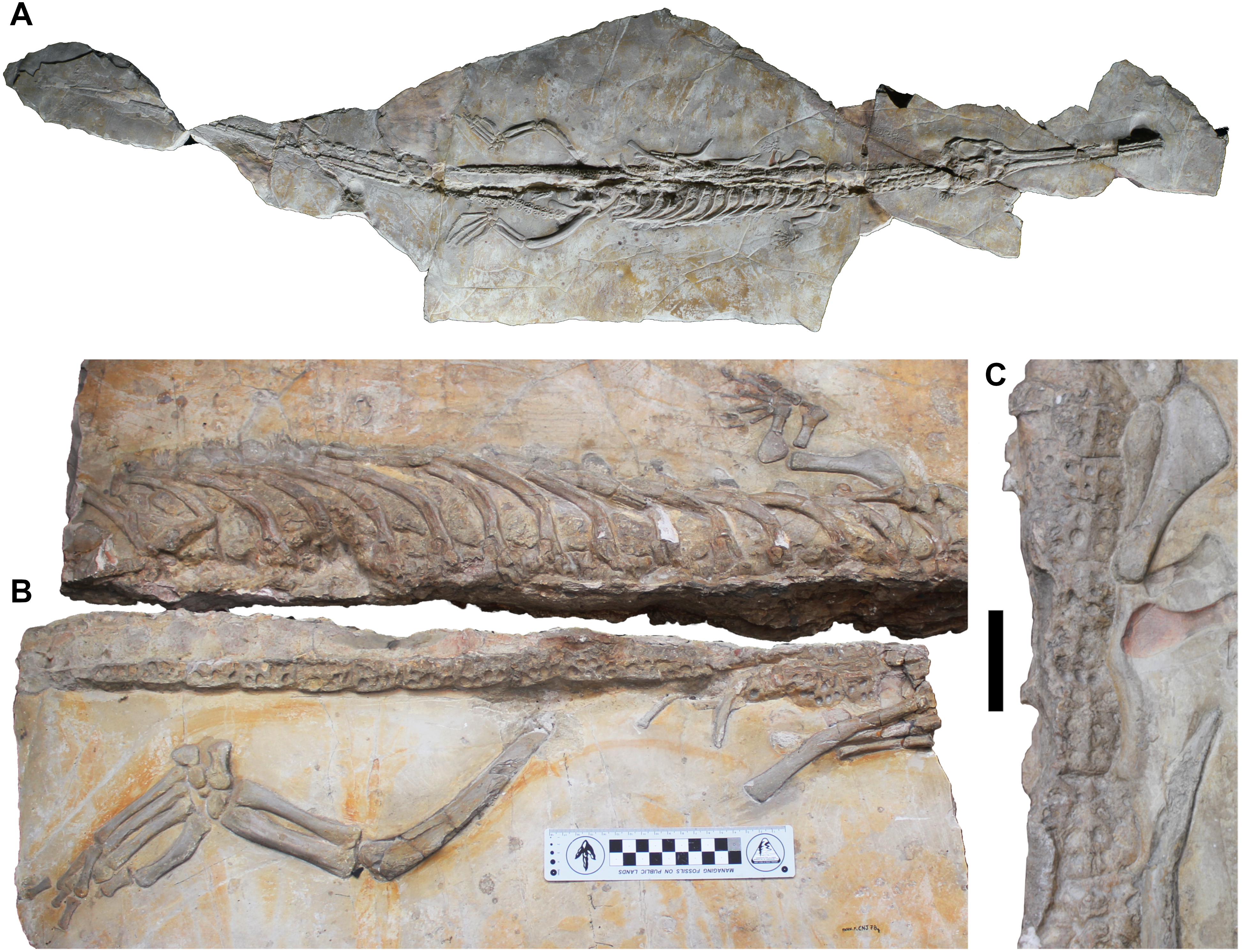 Aeolodon priscus MNHN.F.CNJ 78. A, complete skeleton in dorsal view. B, dorsal region in dorsal view with details of the left forelimb and left hindlimb. C, details of the right forelimb. Scale bar in C equals 5 cm.